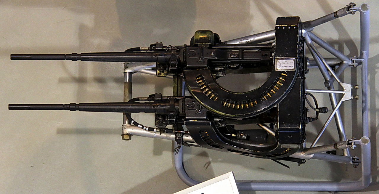 MAC 52 7.5 mm machine guns in Aviation Museum of Central Finland.